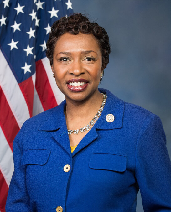 Yvette Clarke's (D-NY) official photo